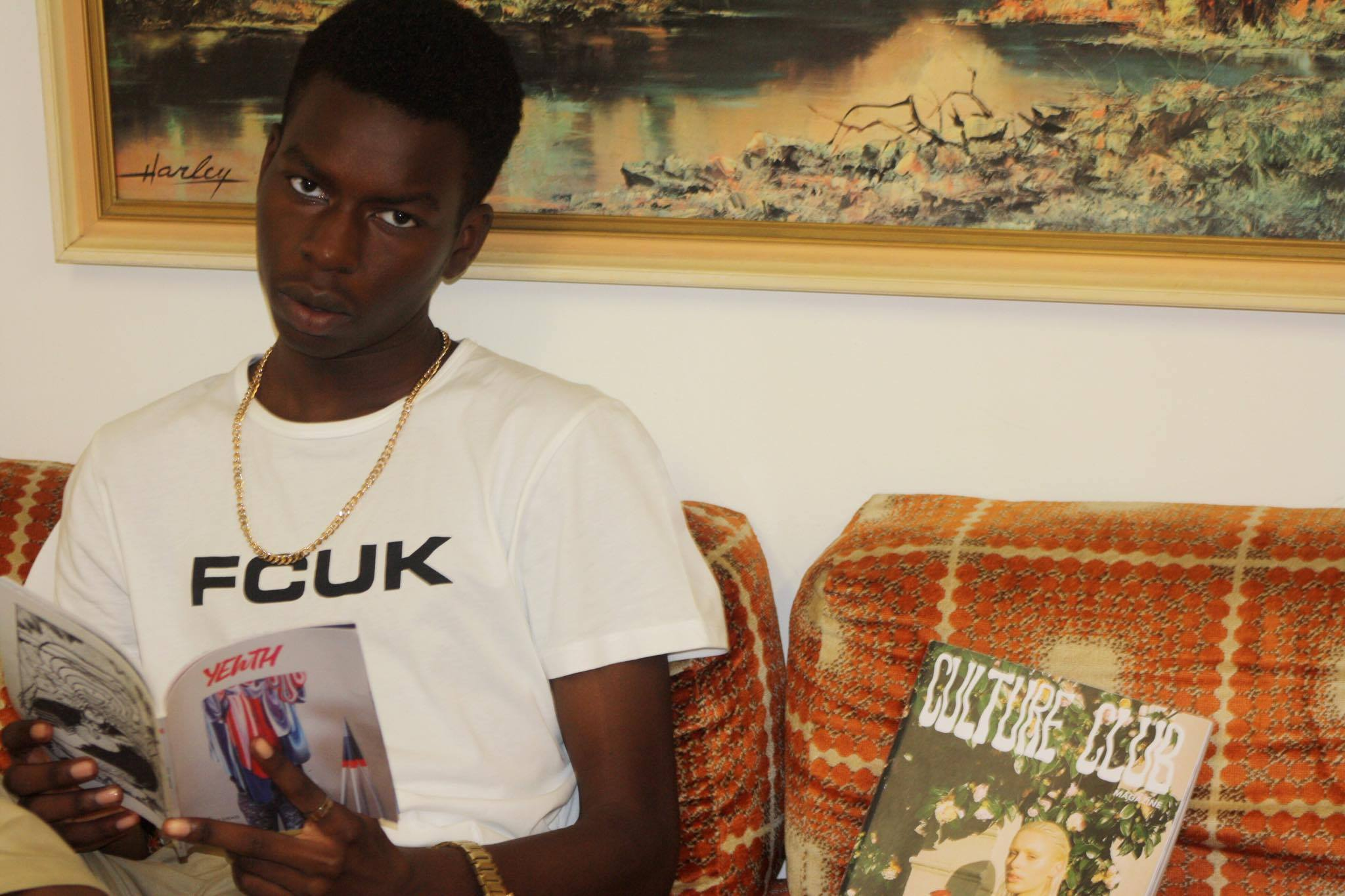 ELK- Power of the YEWTH